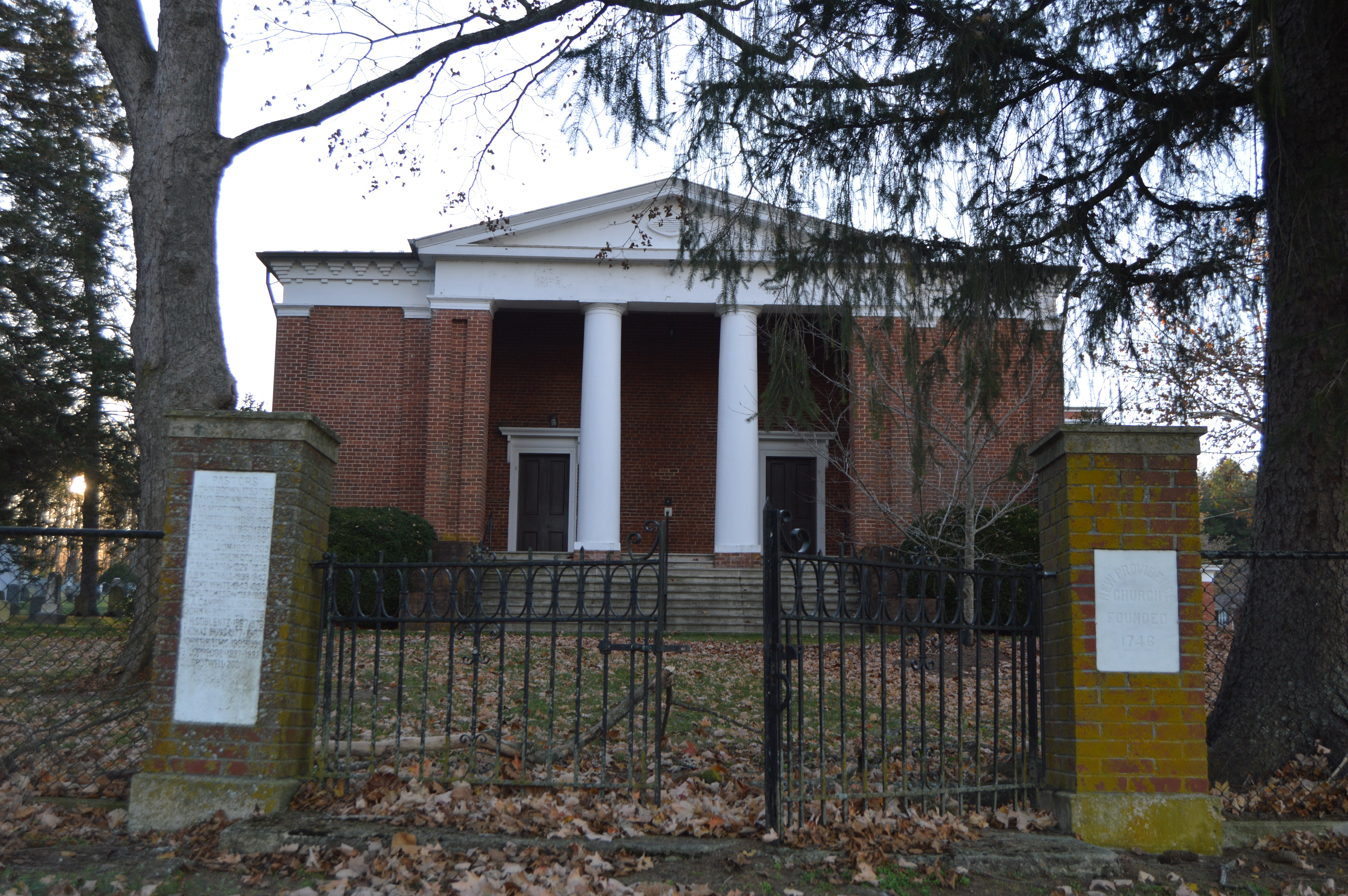 Front of the New Providence Presbyterian Church, located on State Route 252 northeast of Brownsburg in Rockbridge County, Virginia, United States. Built in 1859 to a design by theologian Robert Lewis Dabney, it is listed on the National Register of Historic Places.